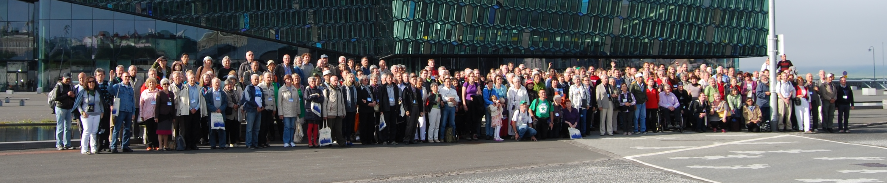 Congress participants of the 98th Esperanto-World Congress, Reykjavík 2013